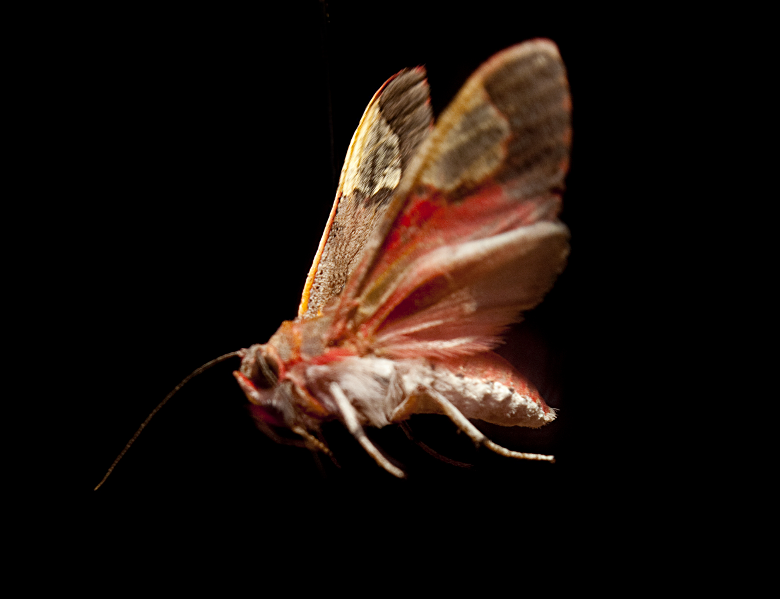 This moth -- Bertholdia trigona -- is the only animal in nature known to jam the echolocation of its predator -- bats.jpg